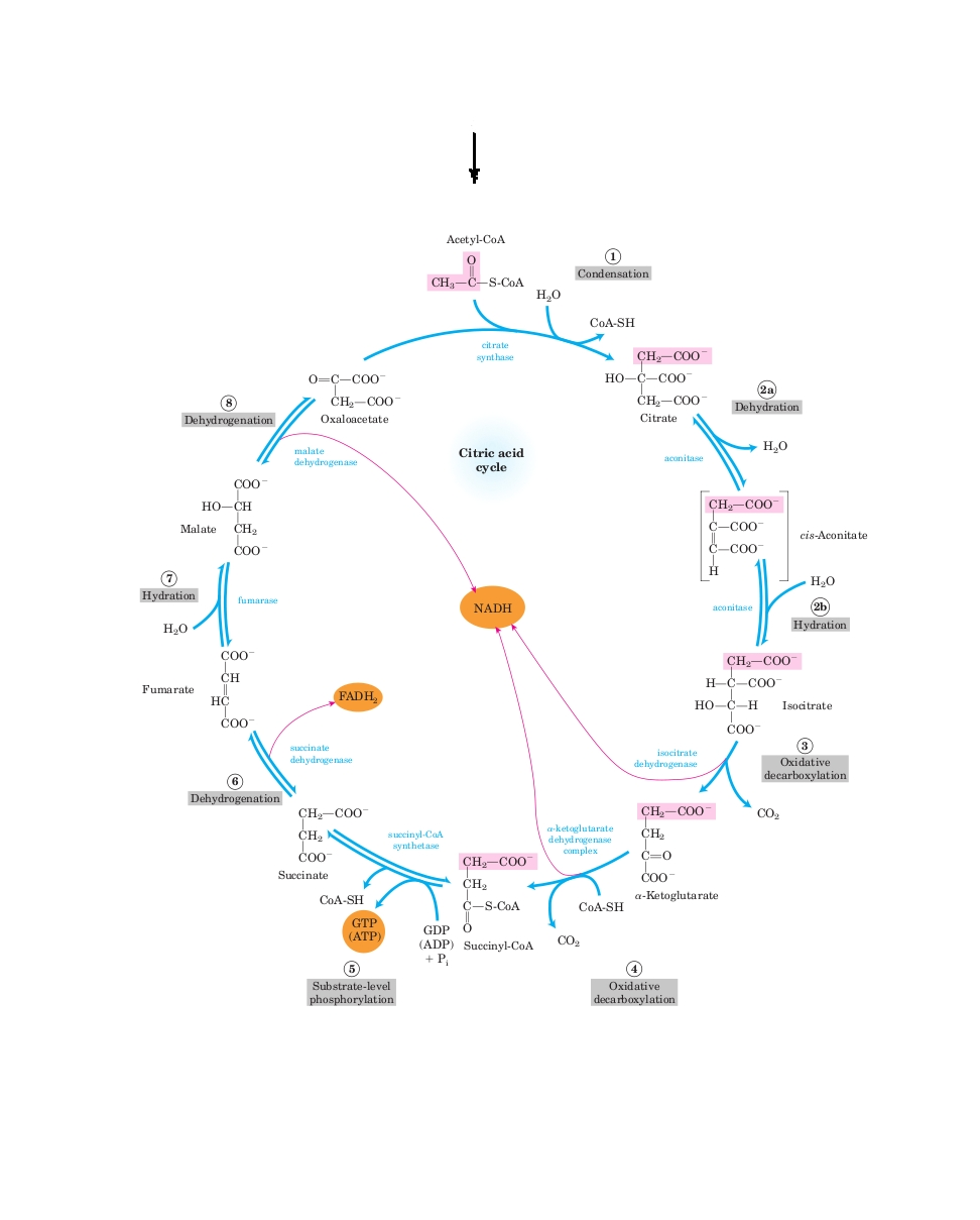 kartinka